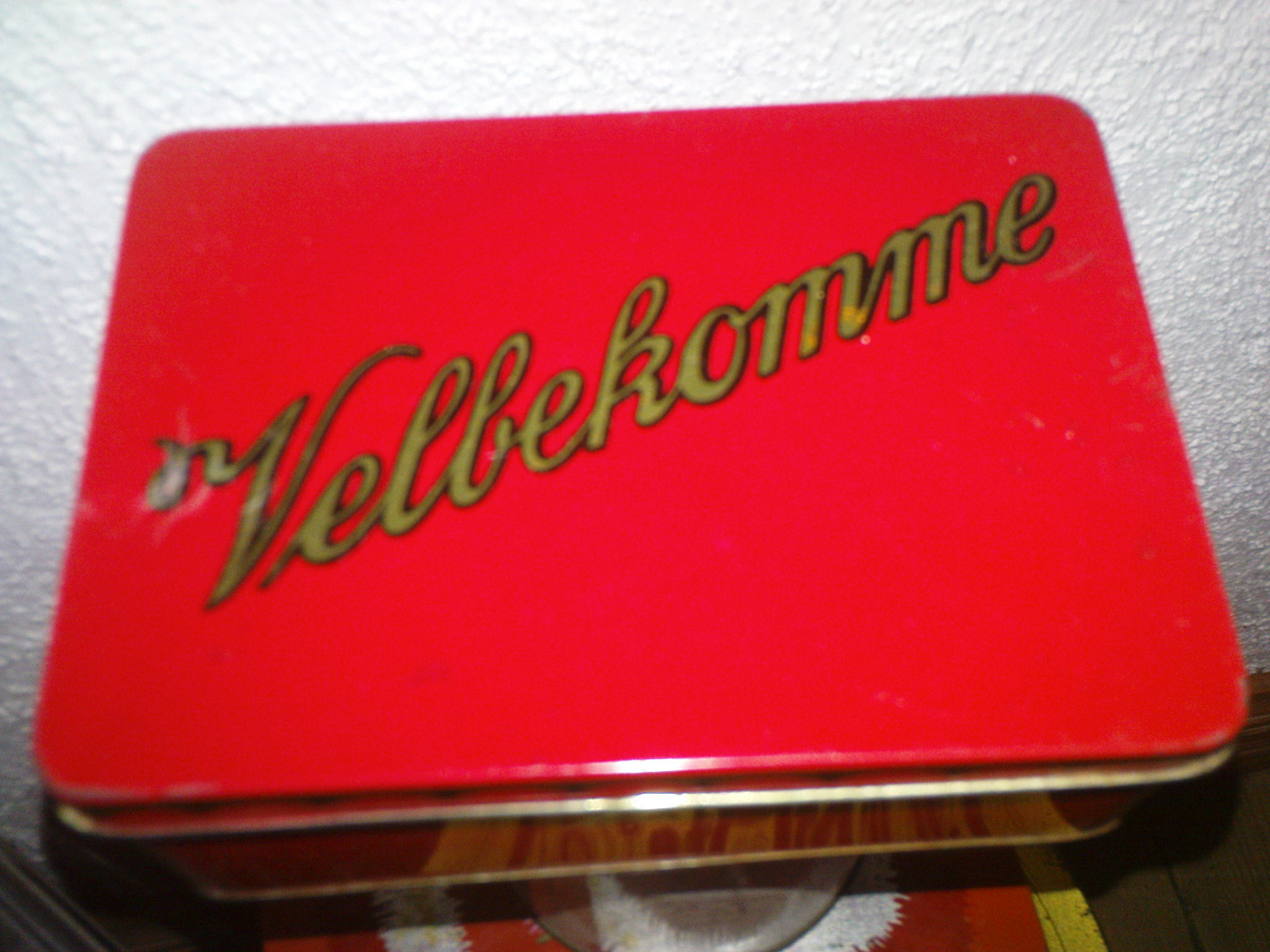 Lunch box (probably newer) in a design popular in Denmark from the 1920ties